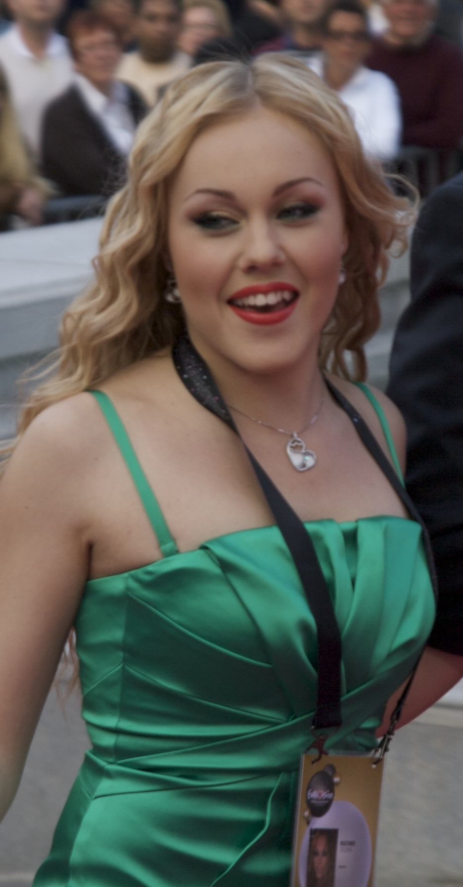 Alyosha